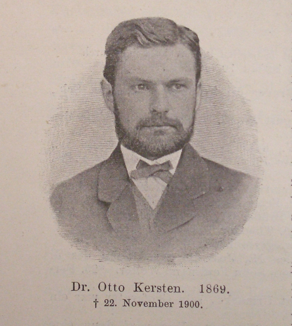 Otto Kersten (23. Dezember 1839 - 22. November 1900)